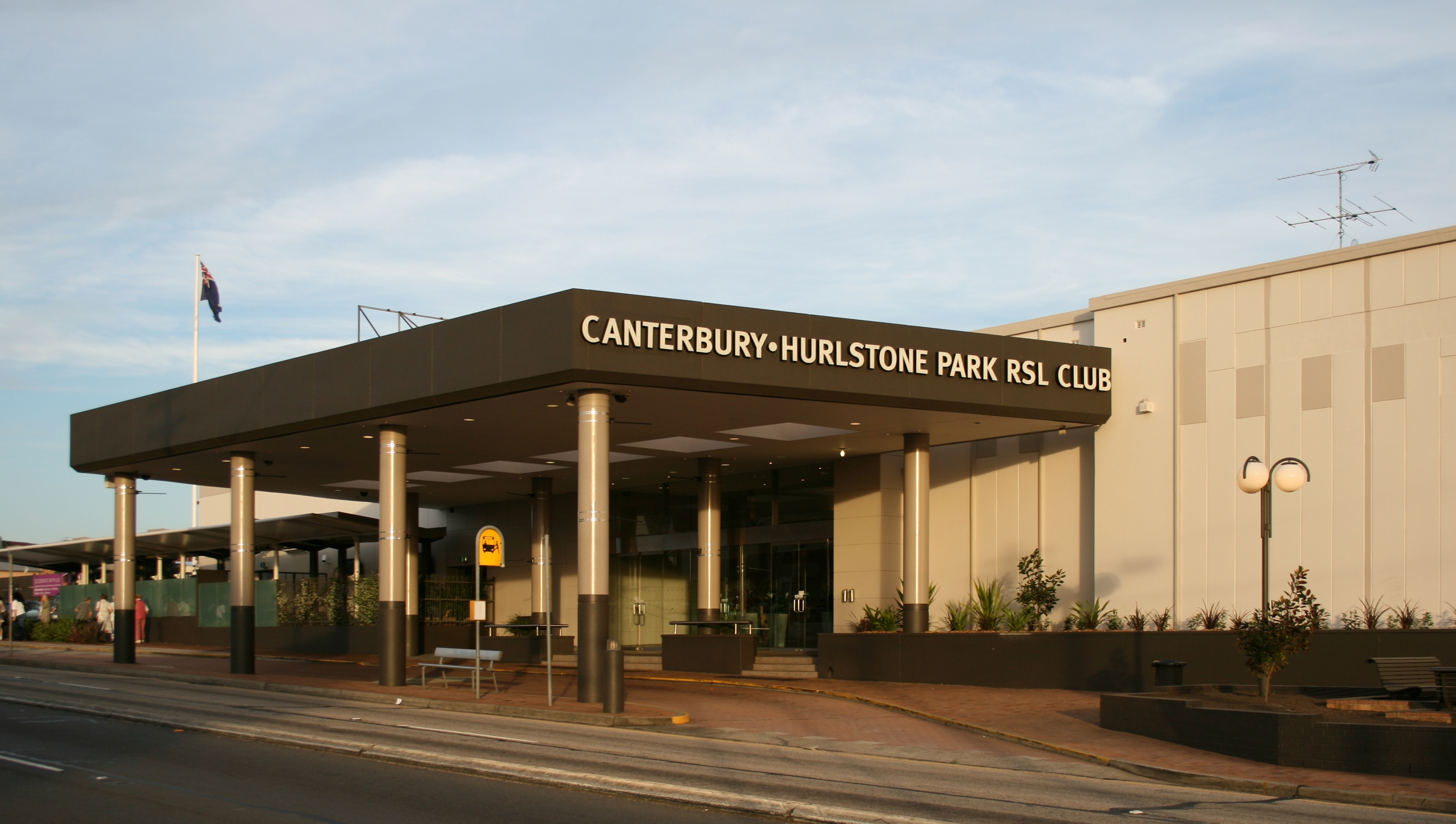 The main entrance to the Canterbury Hurlstone Park Returned and Services League (RSL) Club located on Canterbury Road, Hurlstone Park.